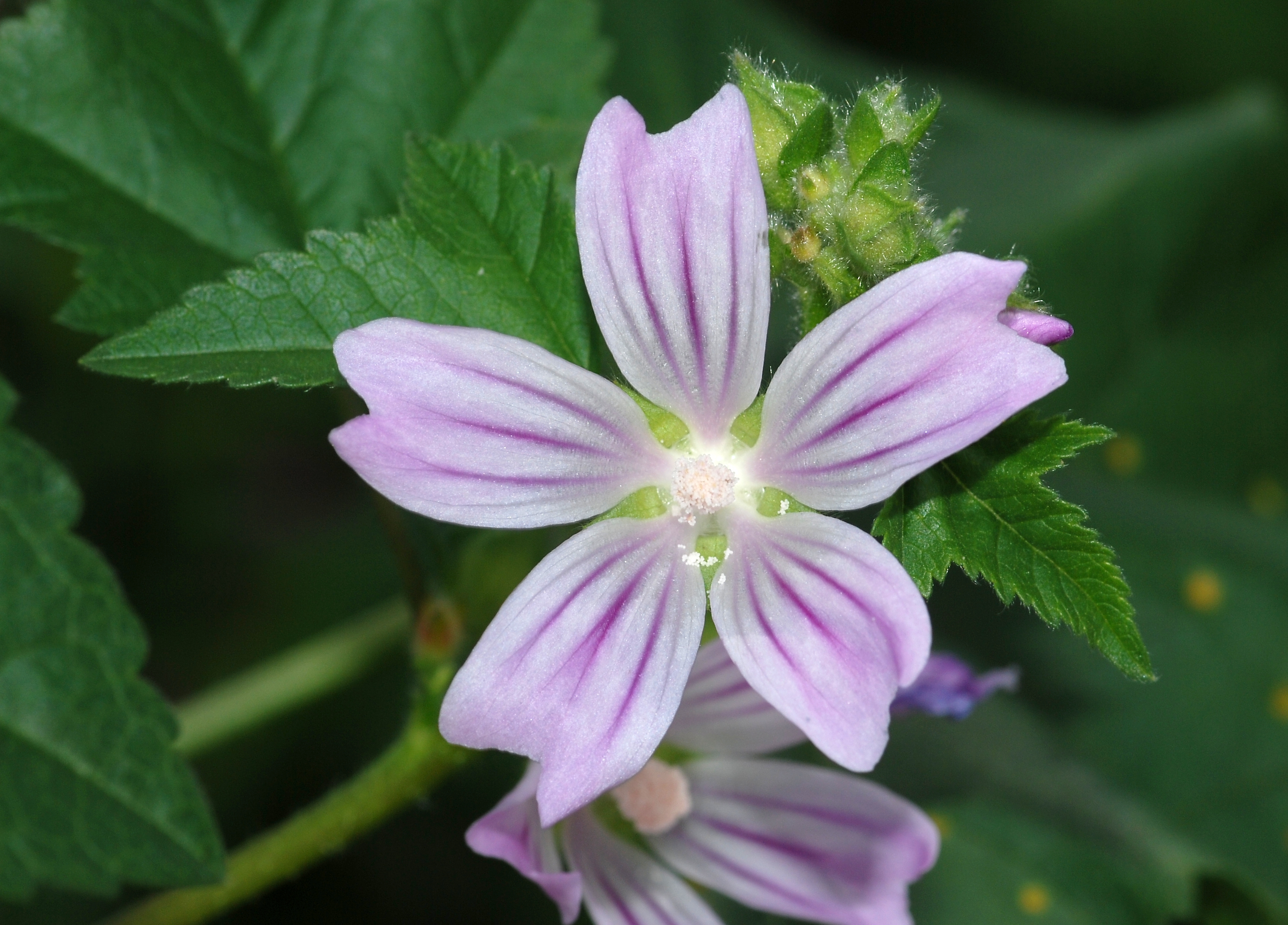 Flower of a Small Tree Mallow (Lavatera cretica)